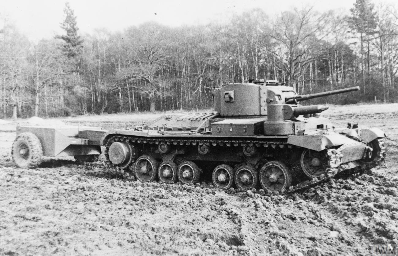 TANKS AND ARMOURED FIGHTING VEHICLES OF THE BRITISH ARMY 1939-45: Valentine flamethrower (cordite-operated equipment)